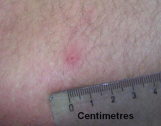 Bite of midge